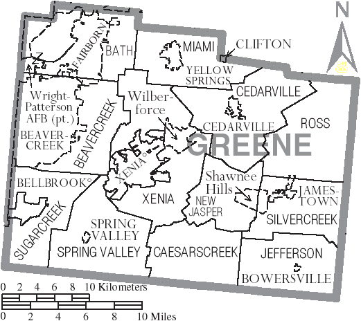 Map of Greene County, Ohio, United States with township and municipal boundaries